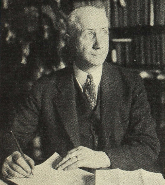 Historian Dixon Ryan Fox, circa 1932, from the 1932 Columbia University yearbook.